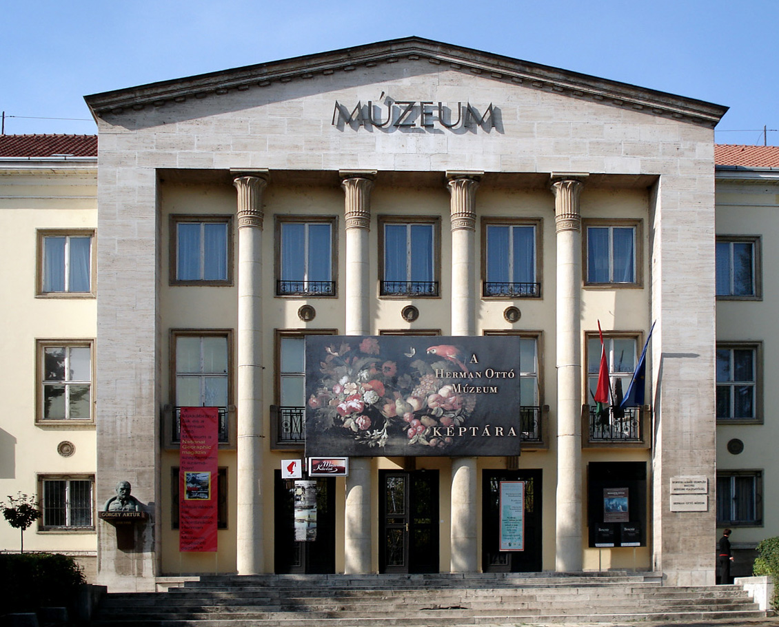 Herman Ottó Museum, Central building, Miskolc, Hungary